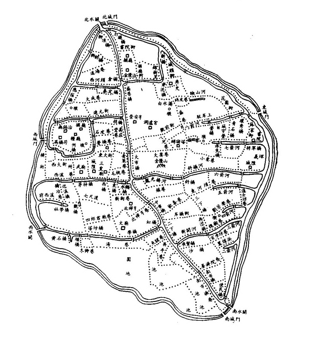 Map of Wuxi urban area, 1881